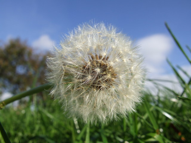 Dandelion Seeds Dandelion Seeds at Milfield, Autumn 2006